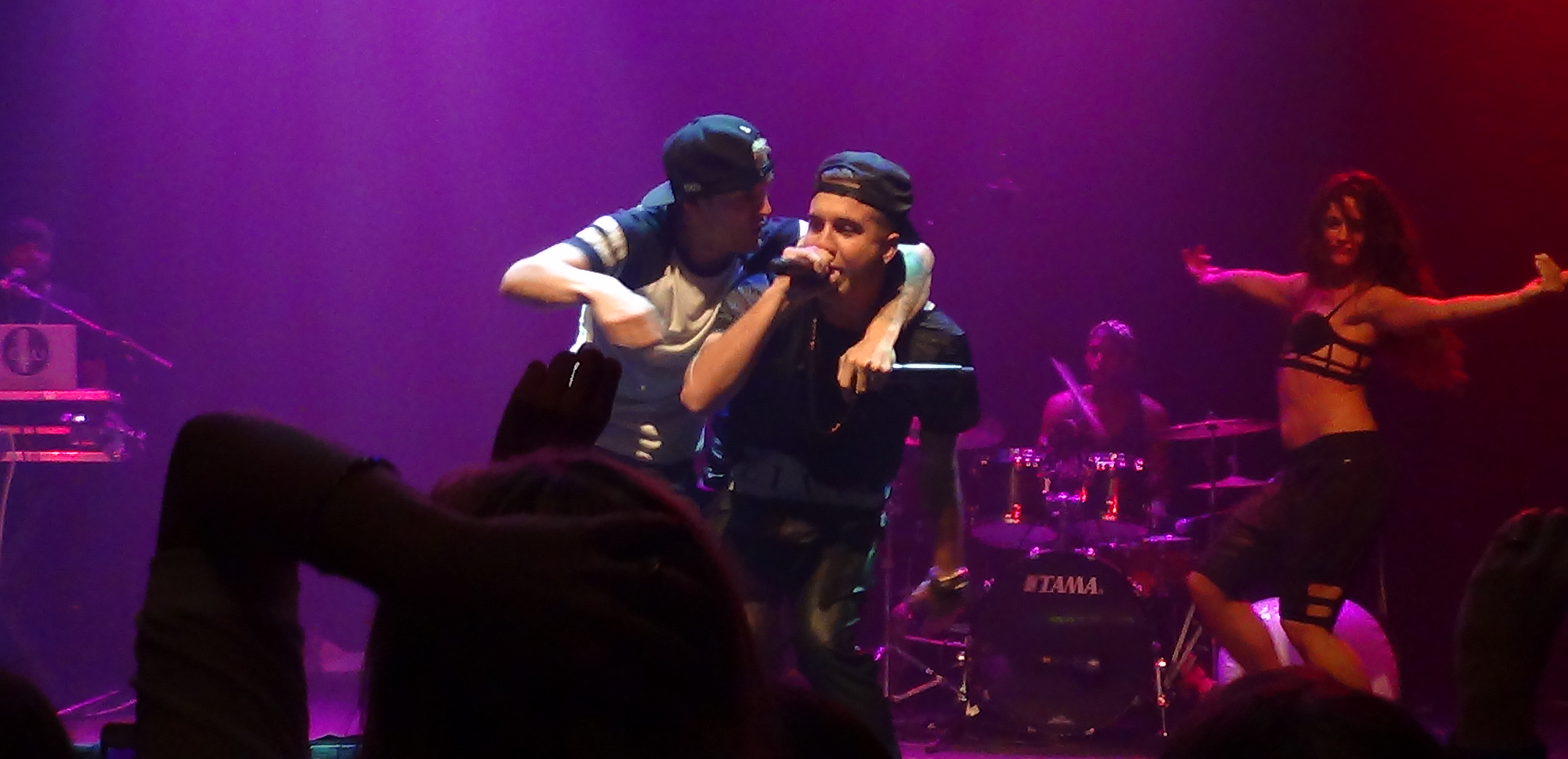 Aaron Carter and Pat SoLo performing "Ooh Wee" at the Gramercy Theatre in New York, NY on 2014-11-07. Photo by Peter Dzubay